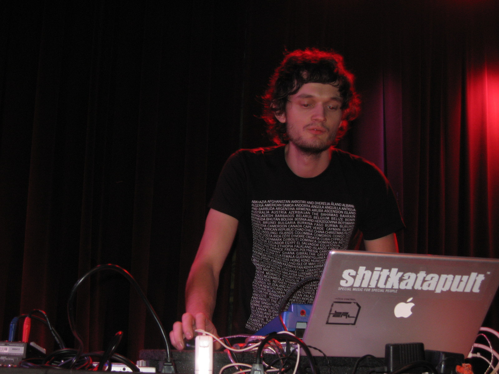 German electronic musician Apparat performing at Decibel Festival in Seattle, USA.